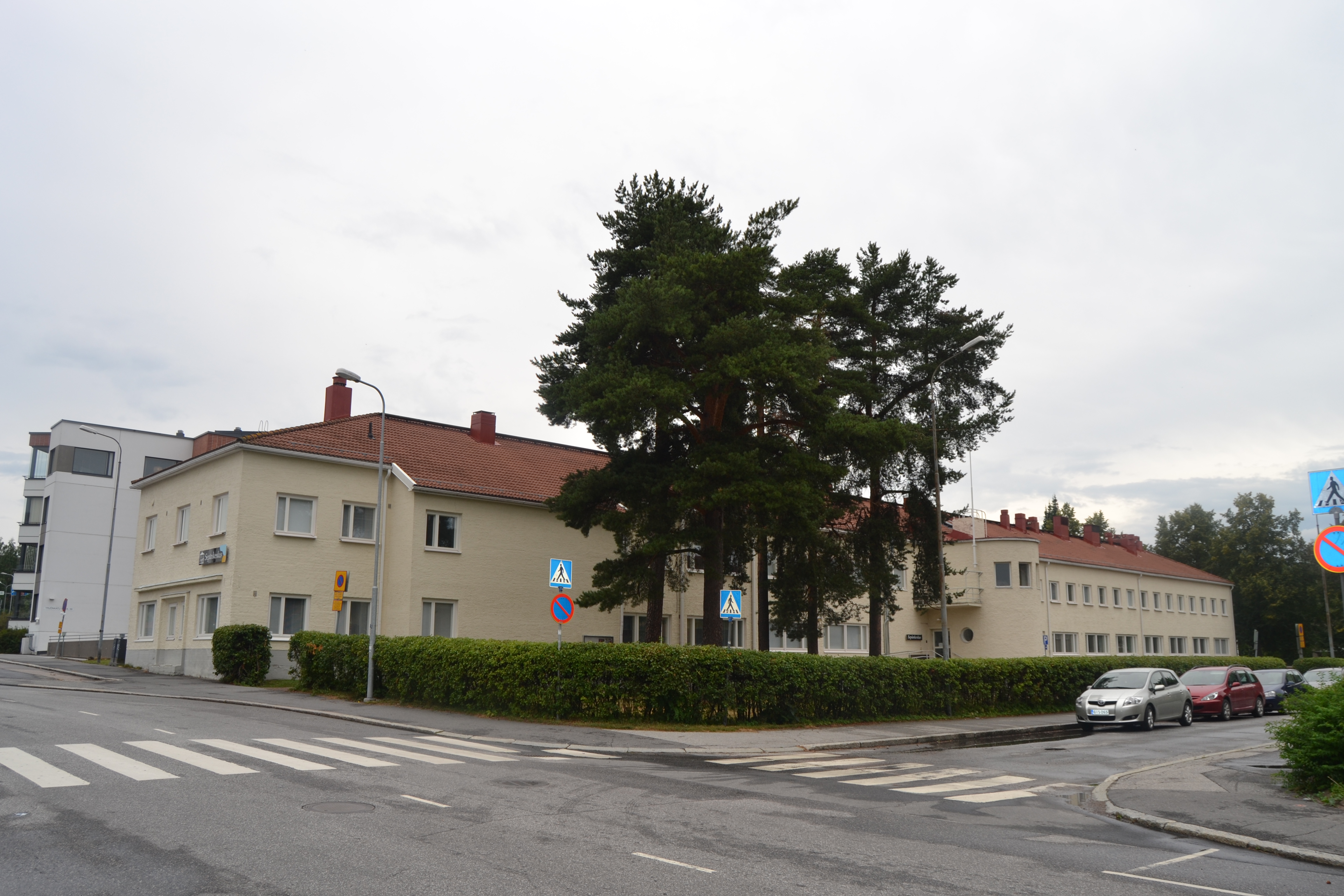 Sepänkeskus in Jyväskylä, Finland